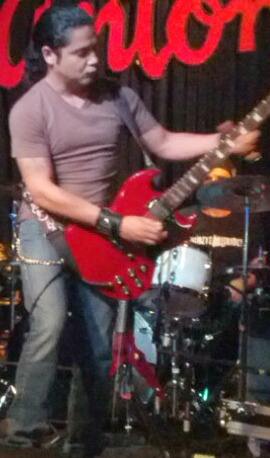 Perez performing with a guitar in May 2012.